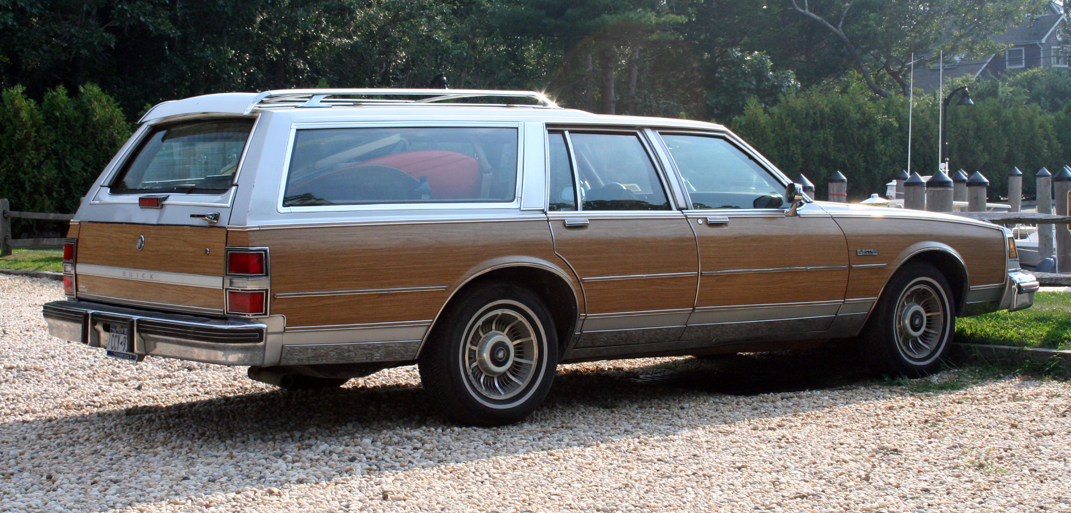 Buick Electra Estate Wagon in Springs, NY